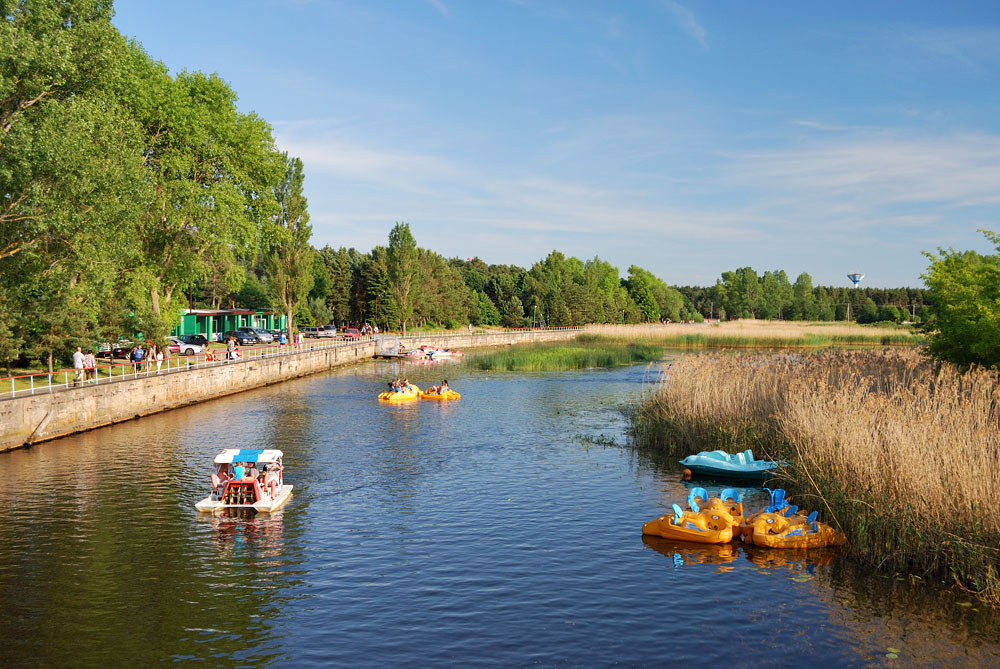 Port of Sventoji